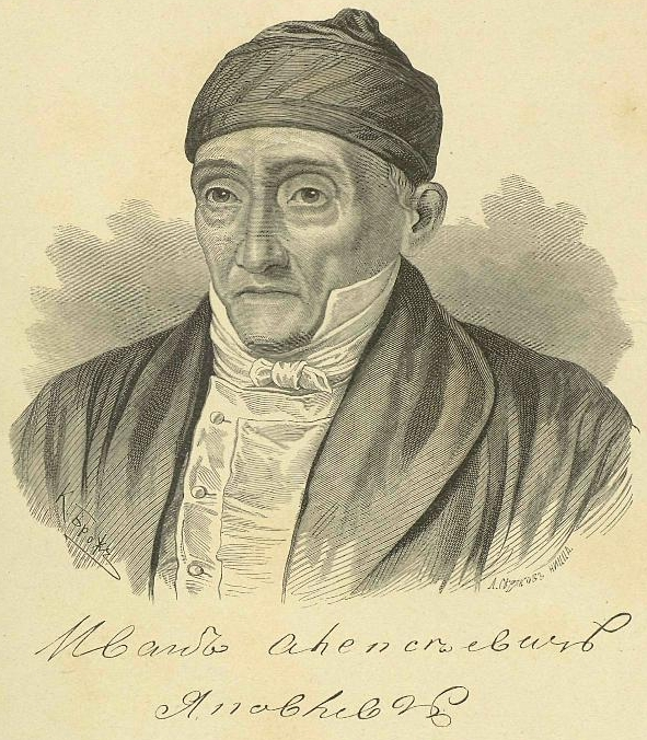 Yakovlev Ivan Alexeevich